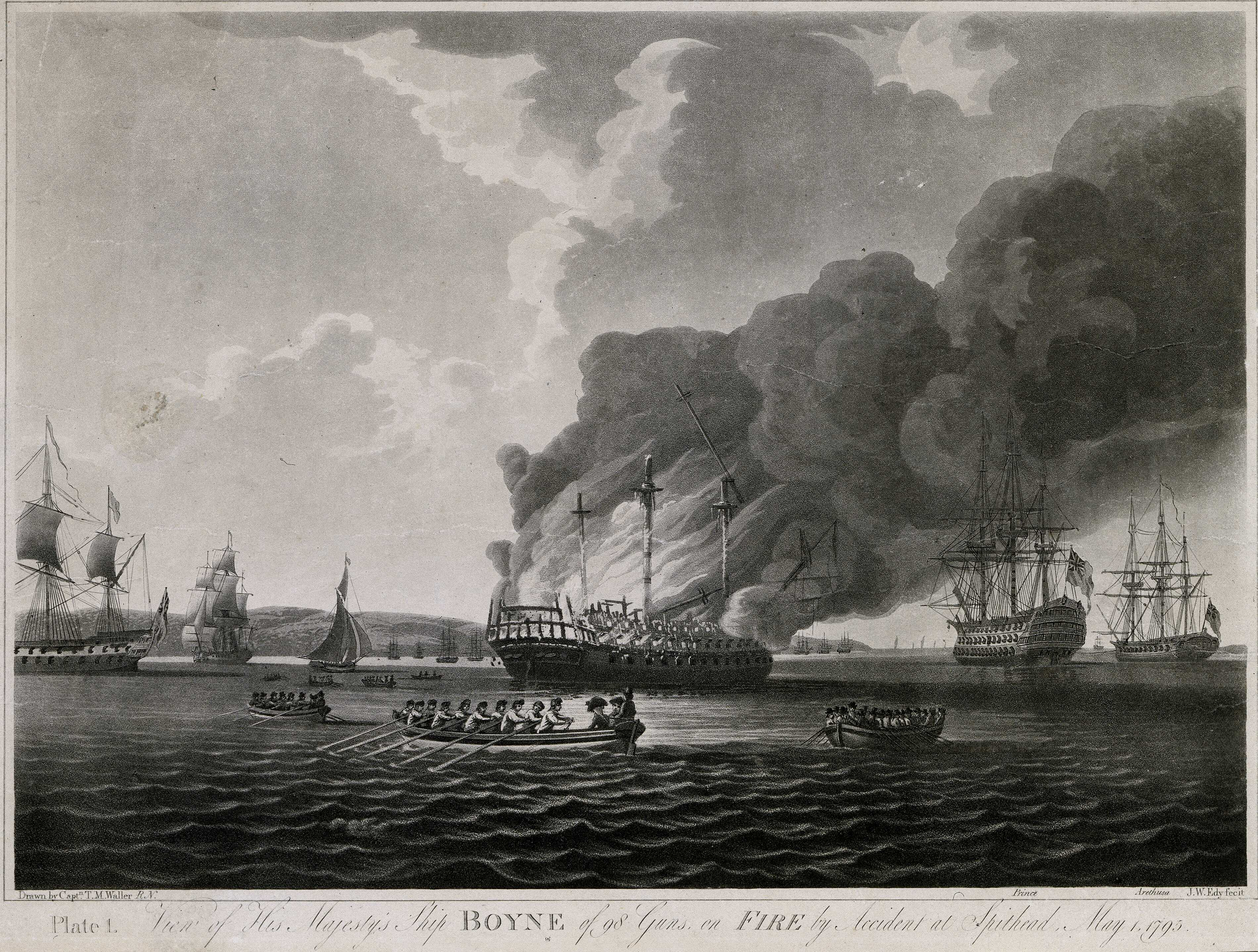 View of His Majesty's Ship Boyne of 98 Guns, on Fire by Accident at Spithead, May 1795 View of His Majesty's Ship Boyne of 98 Guns (Vice-Admiral Sir John Jervis's flagship, in action in the West Indies in 1794) on fire at Spithead, May 1795. Also shows ships Prince and Arethusa on the right hand side, as well as several other vessels in fore and background. Sheet: 360 x 482 mm; Mount: 18 7/8 in x 25 in